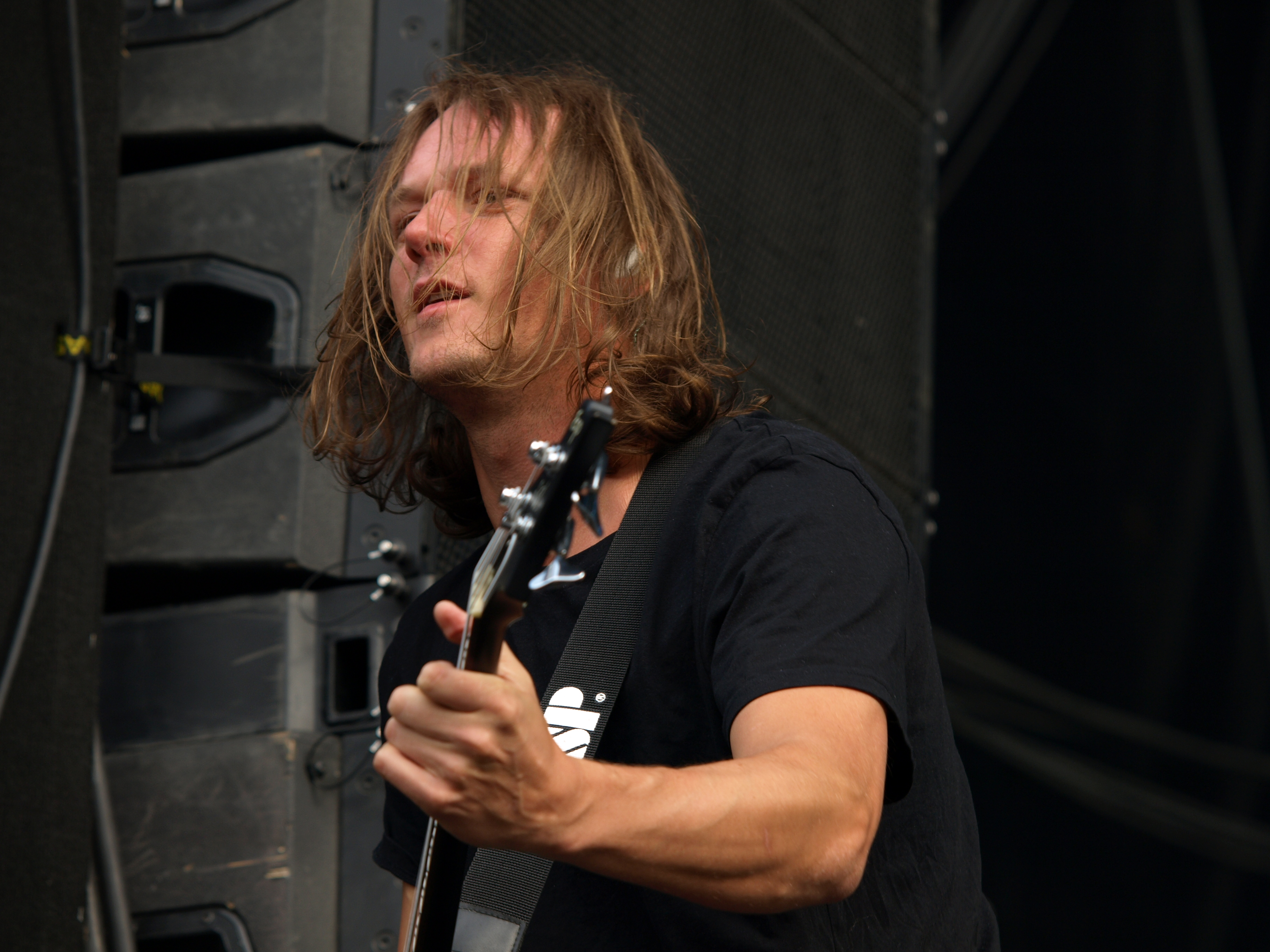 Finnish band Children of Bodom live at Provinssirock 2013